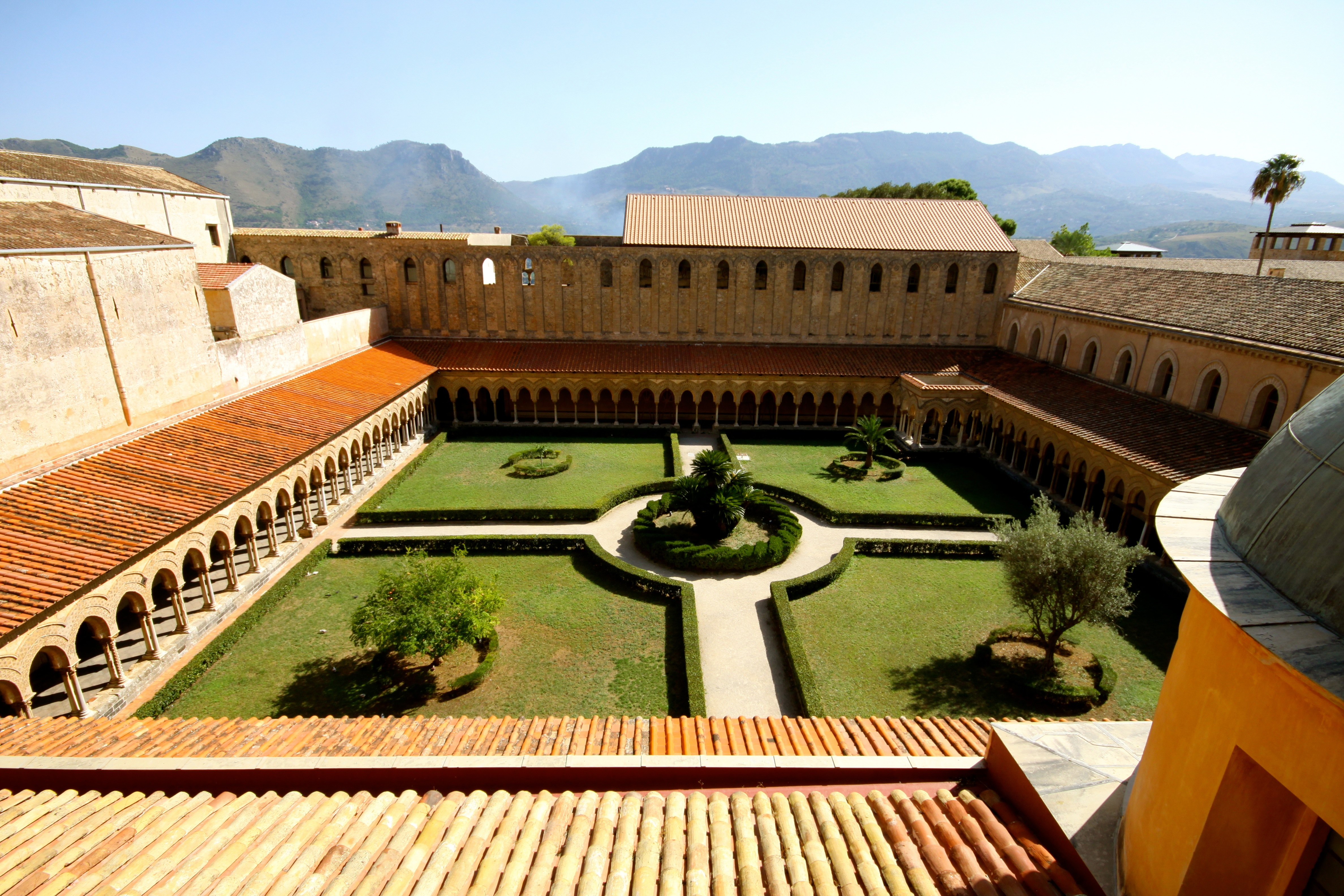 Cloister of the Cathedral in Monreale